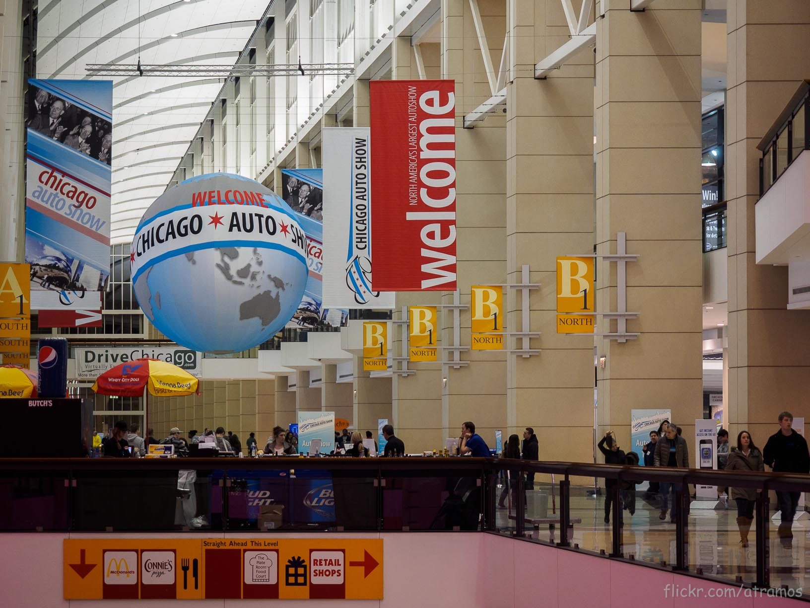 Chicago Auto Show 2014